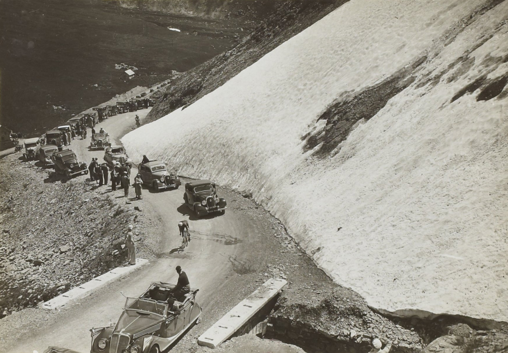 Tour de France 1936